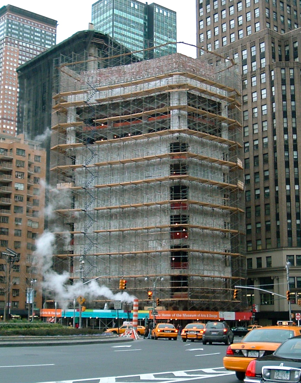 This is a photo of en:2 Columbus Circle under renovation in early 2006. It will be finished in 2007 and the Museum of Art and Design will move in. It was taken by me, H0n0r. See also File:2 Columbus Circle.jpg.